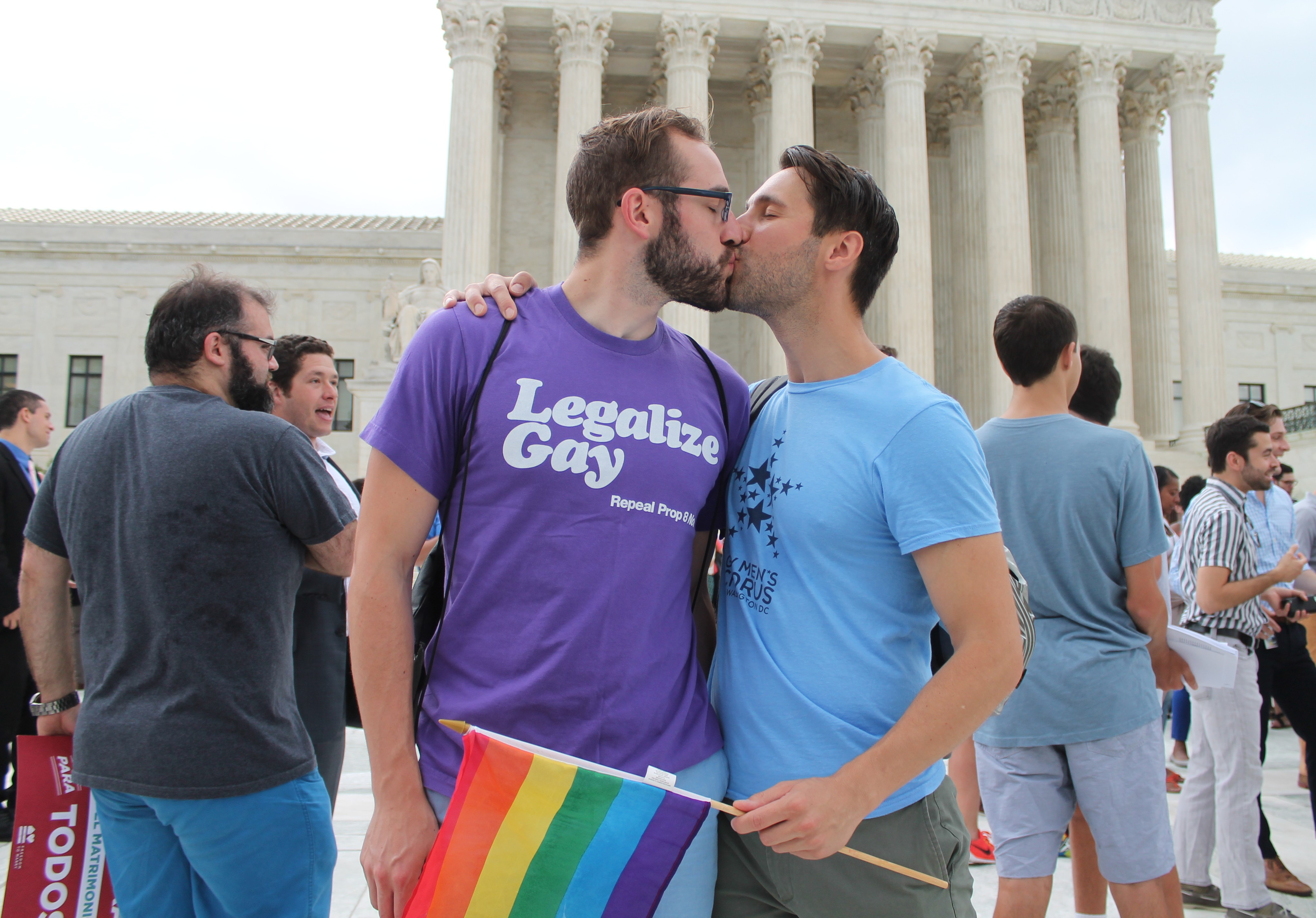 MARRIAGE EQUALITY DECISION DAY RALLY in front of the US Supreme Court on First Street between East Capitol Street and Maryland Avenue, NE, Washington DC on Friday morning, 26 June 2015 by Elvert Barnes Protest Photography Marriage Equality / USA Learn more about the SCOTUS Obergefell v. Hodges case on Wikipedia at Visit Elvert Barnes MARRIAGE EQUALITY same-sex civil unions ongoing project at